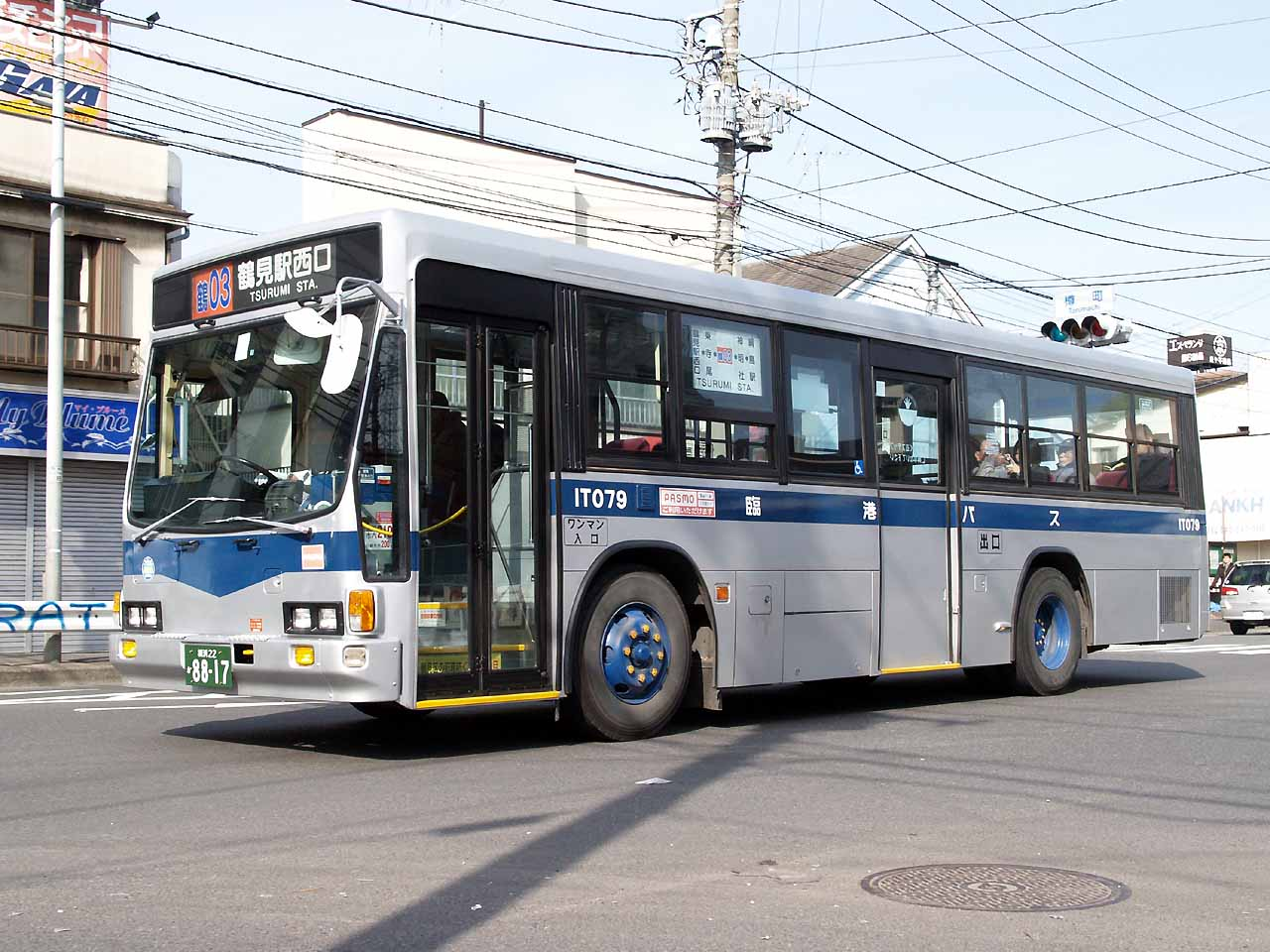 An old design of Rinko Bus: painted silver and dark blue line, facsimiled for 70th anniversary. Model: Isuzu Cubic KC-LV380K License plate: KNY22 KA8817 Place: Tarumachi, Kohoku ward, Yokohama, Kanagawa Japan 川崎鶴見臨港バスのいすゞキュービック。創立70周年を記念して計2台に旧塗装を復刻、銀色に紺色の帯をまとう。 登録番号：横浜22か8817 撮影地：神奈川県横浜市港北区樽町